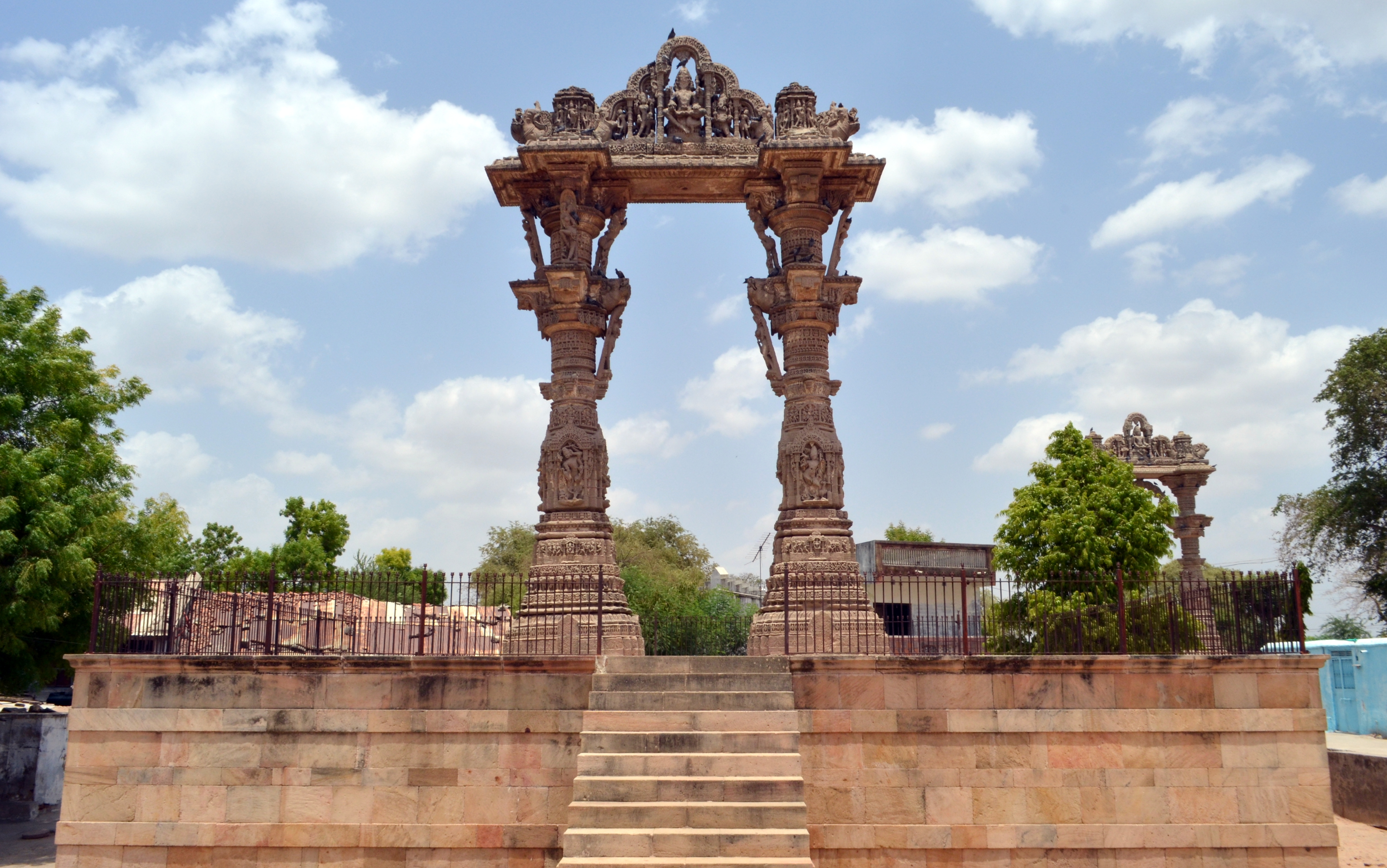 Torana